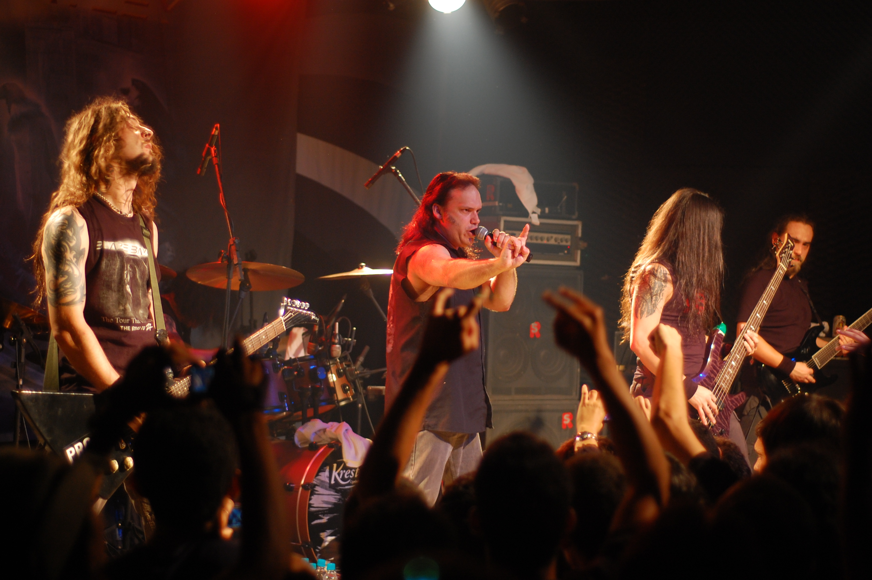 Blaze Bailey live in Aracaju, Brazil.